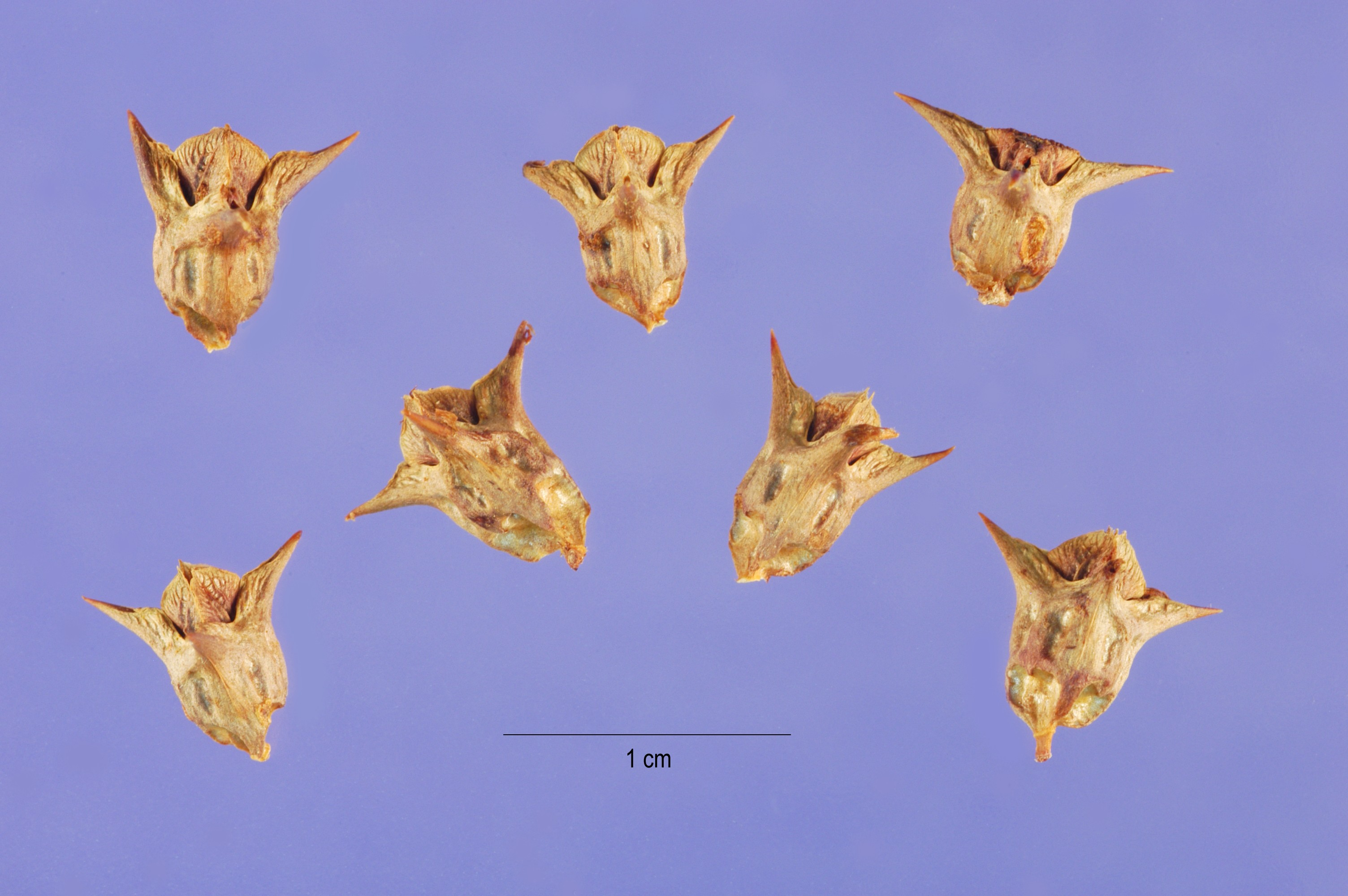 Emex australis seeds. Provided by ARS Systematic Botany and Mycology Laboratory. Australia.